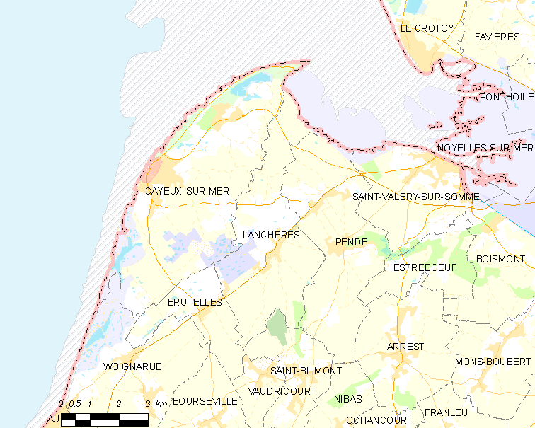 Map of French municipality Lanchères